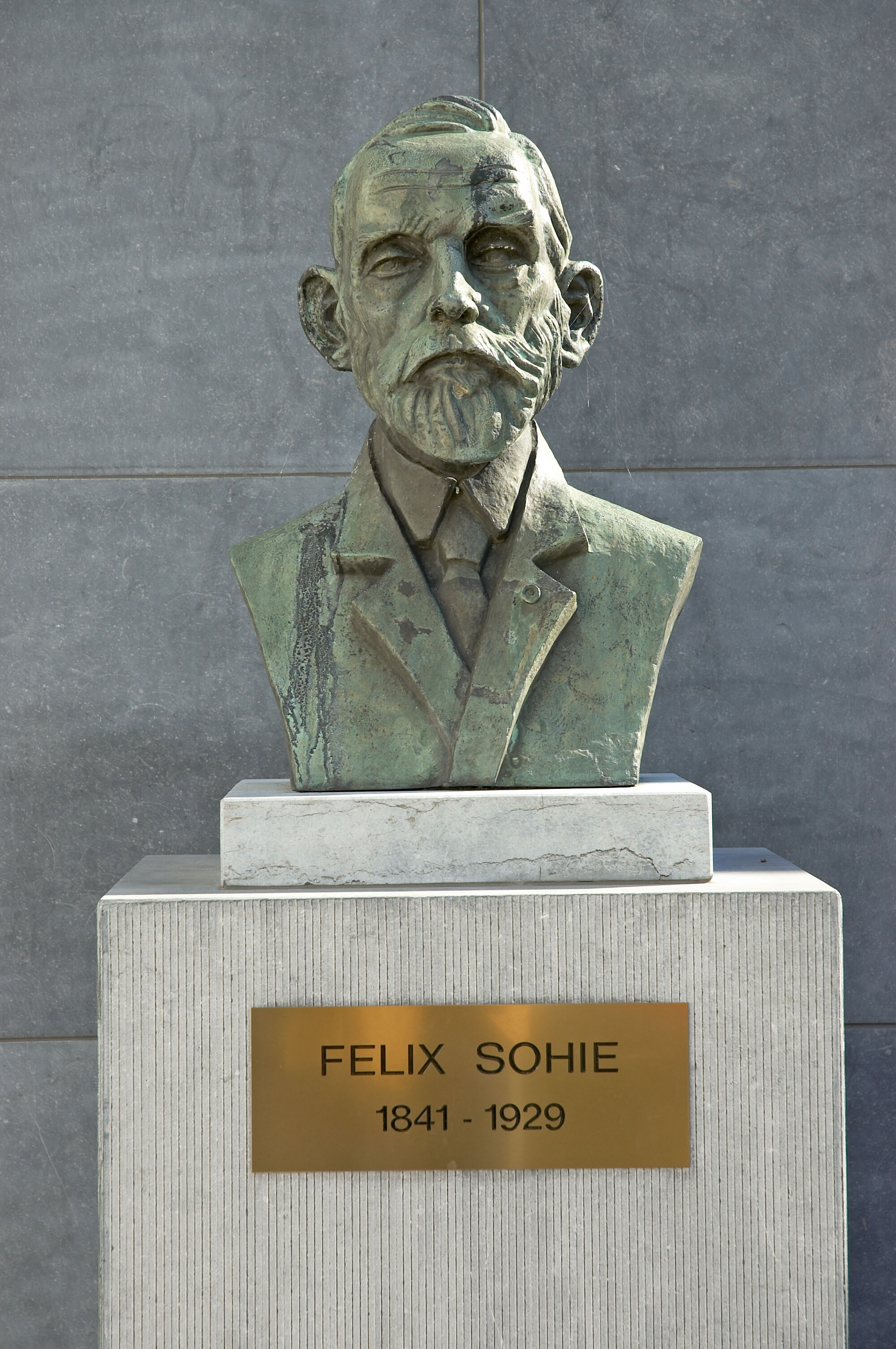 Statue of Felix Sohie (1841-1929) in Hoeilaart, Belgium